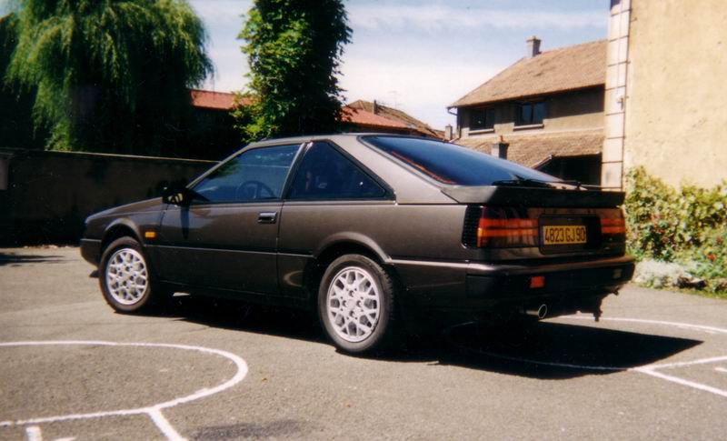 Silvia S12